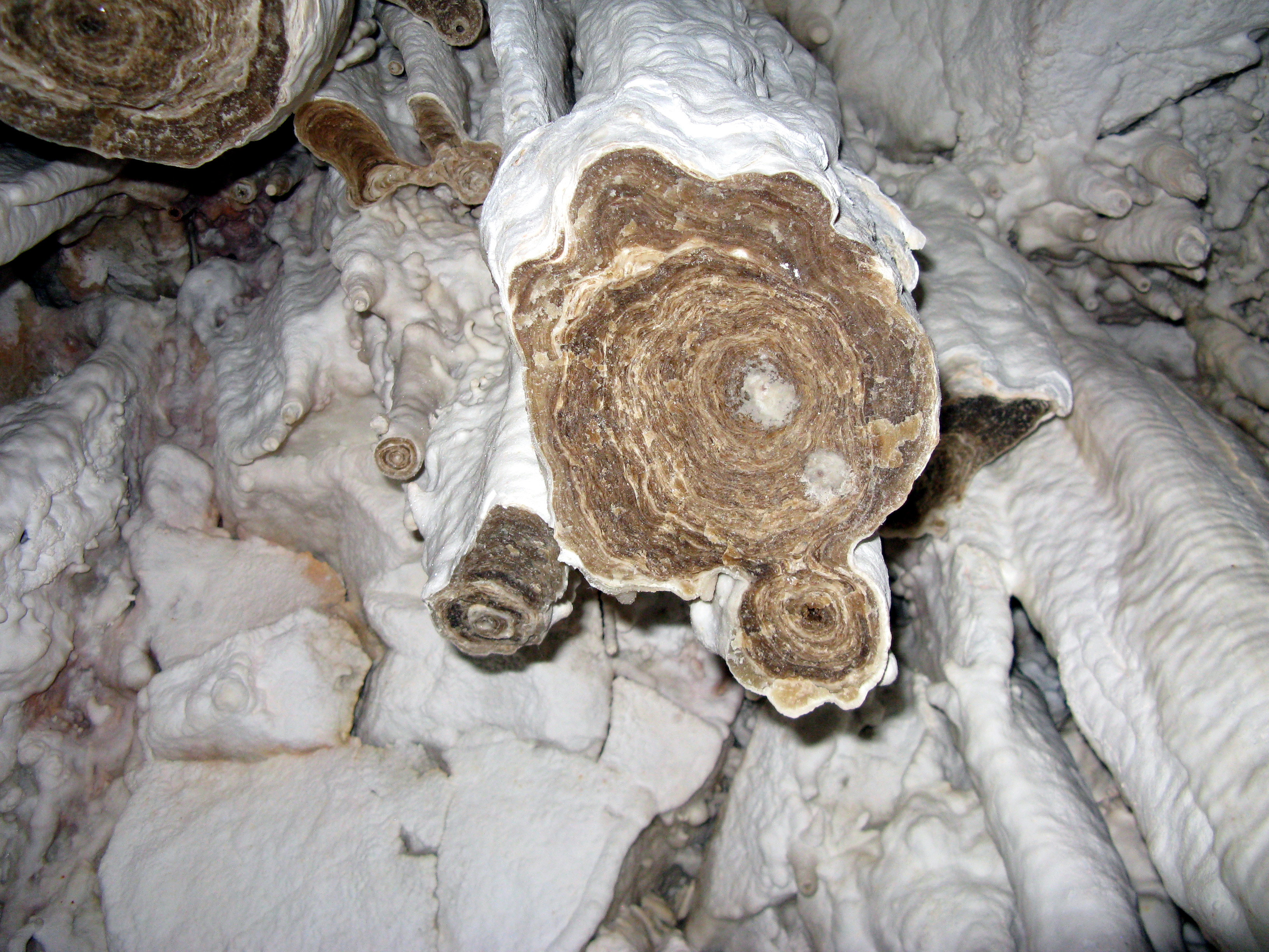 Slice of stalactite